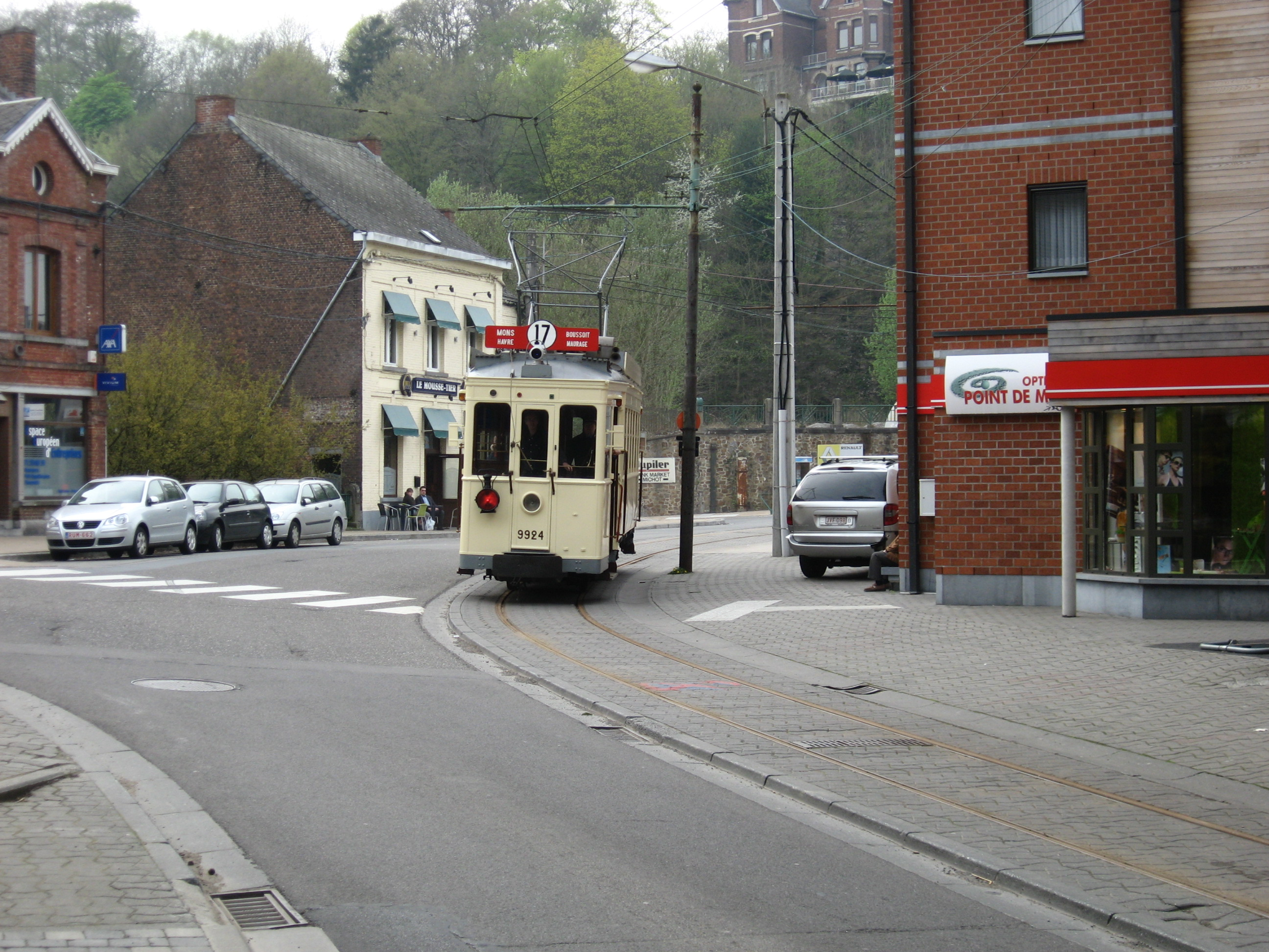 Old SNCV tram on heritage line of the Asvi in Thuin.